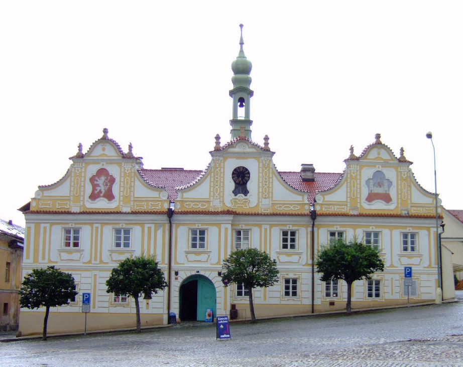 Town hall in Kašperské Hory